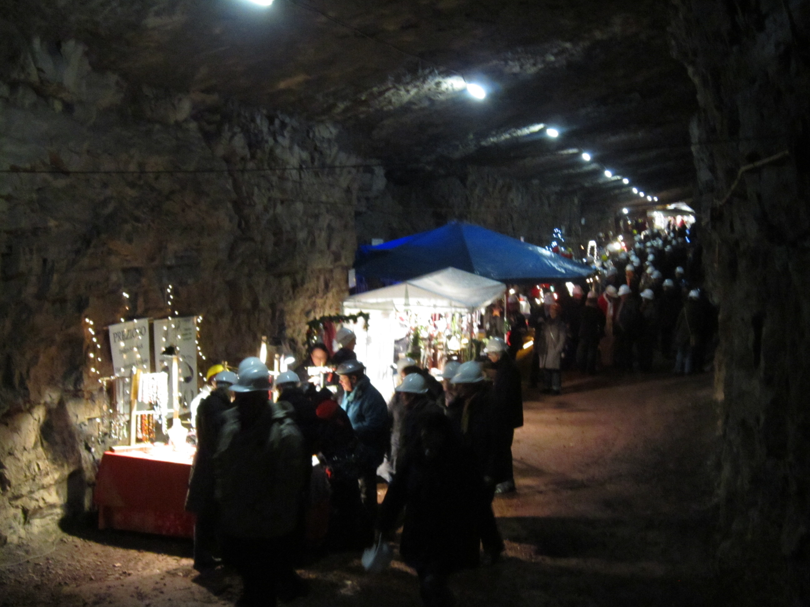 Christmas market in the vistitors' mine Kleinenbremen (Kreis Minden, North Rhine-Westphalia)